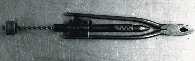 Safety wire twisting pliers to make wire safeties on airplanes.